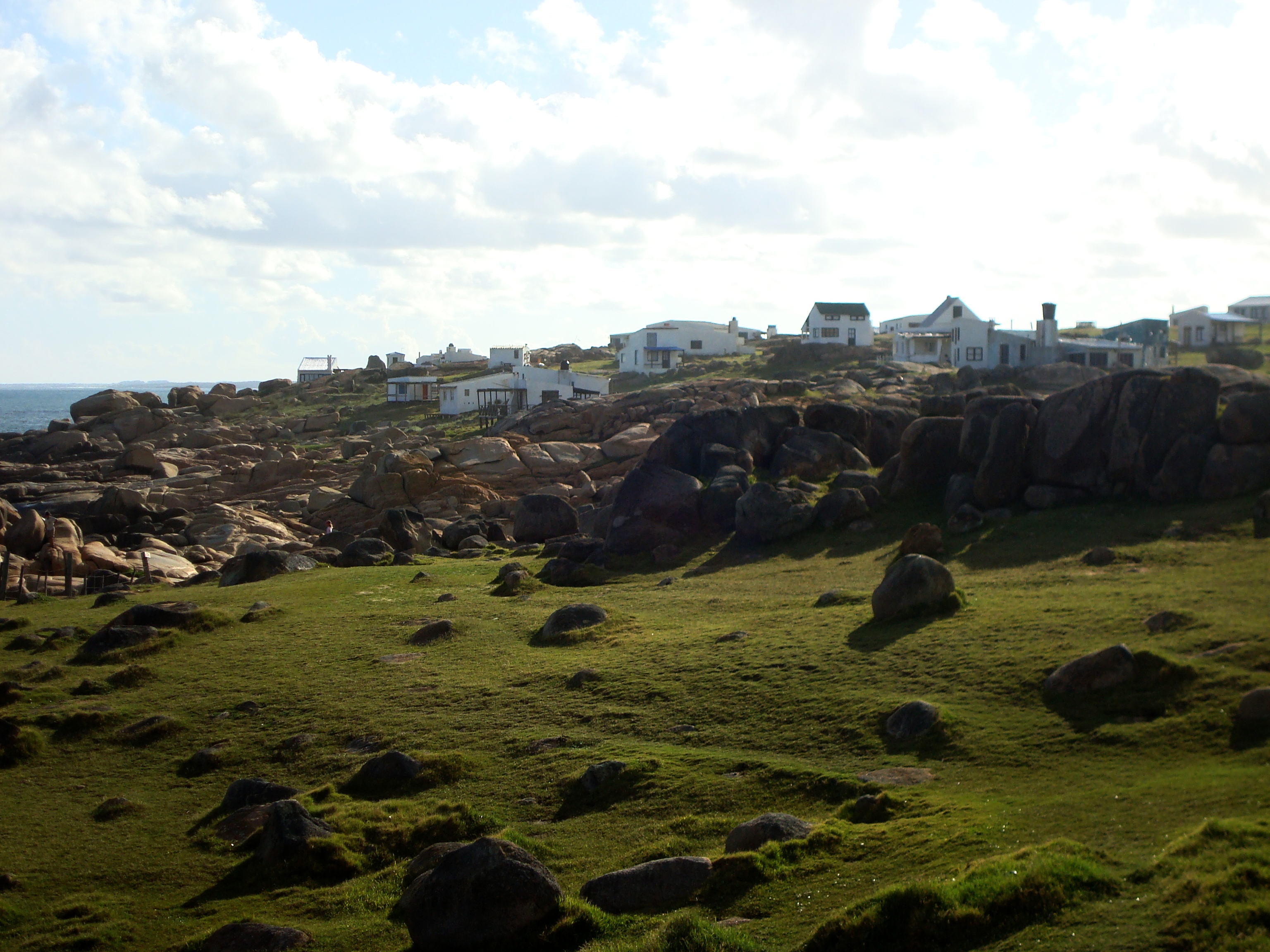 Cabo Polonio, Rocha Department, Uruguay.